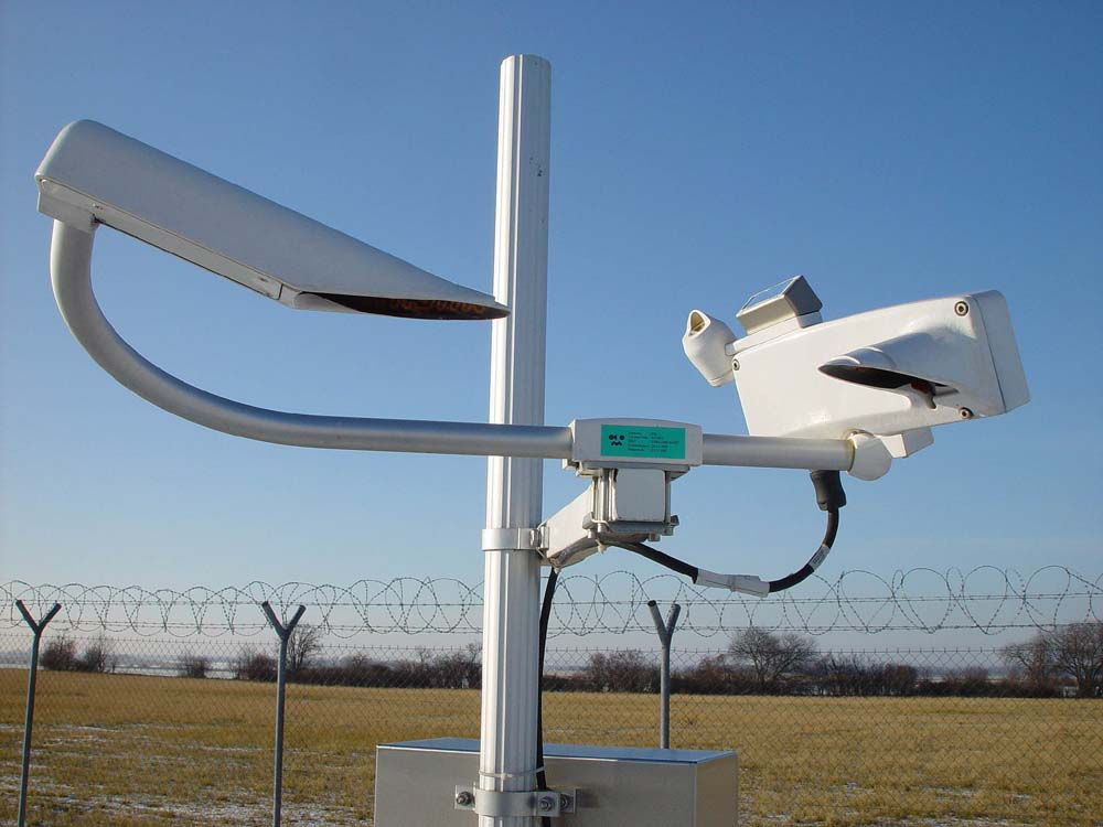 Equipment for measuring the meteorological visibility.